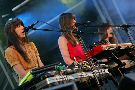 Au Revoir Simone In Concert on 2008